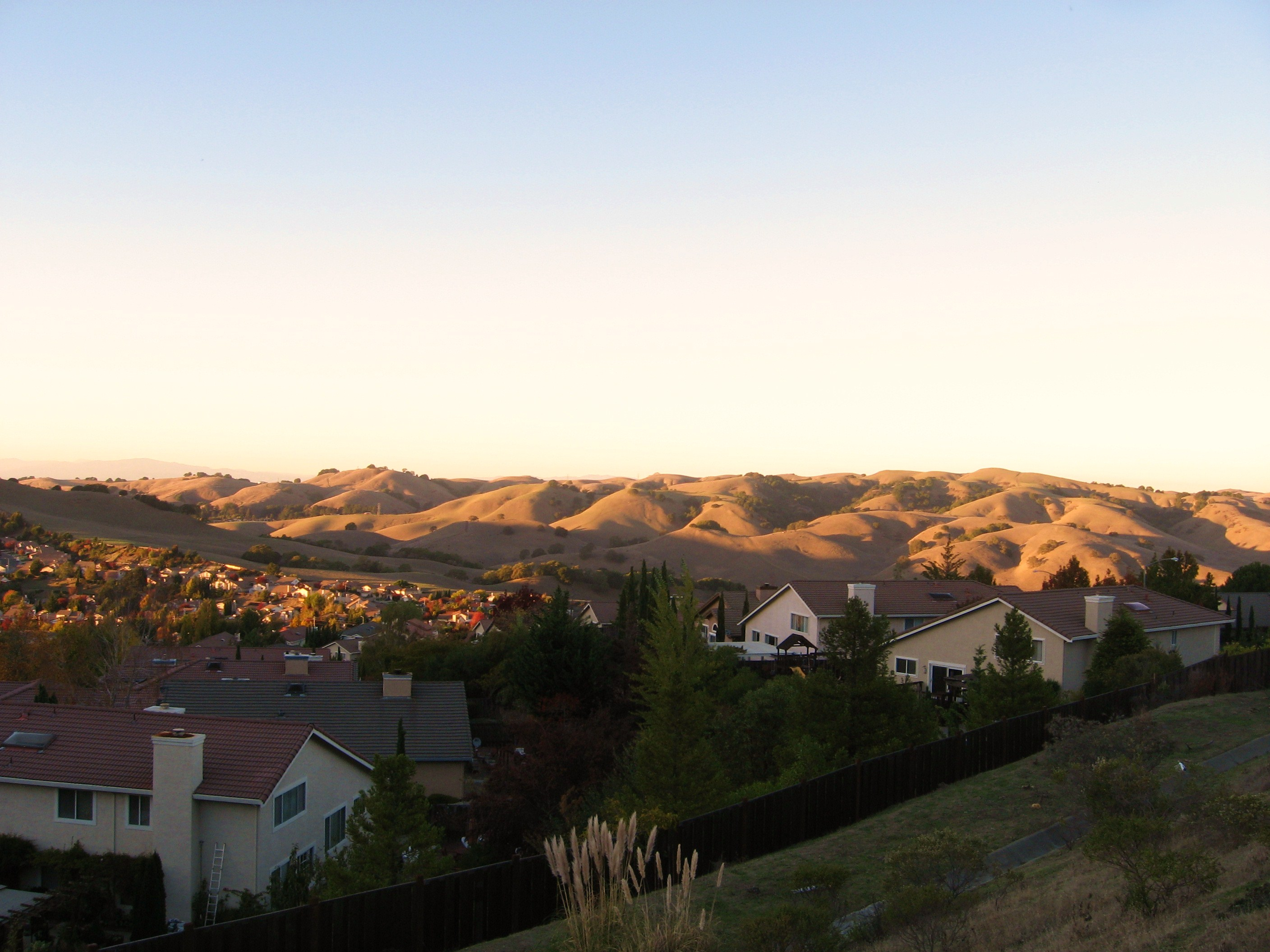 A view of Carriage Hills, Richmond, California, USA, facing north